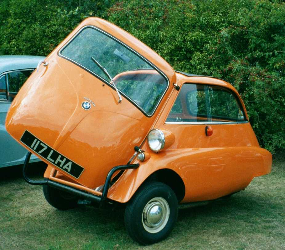 Oldfarm 01:39, 2 Dec 2004 (UTC)